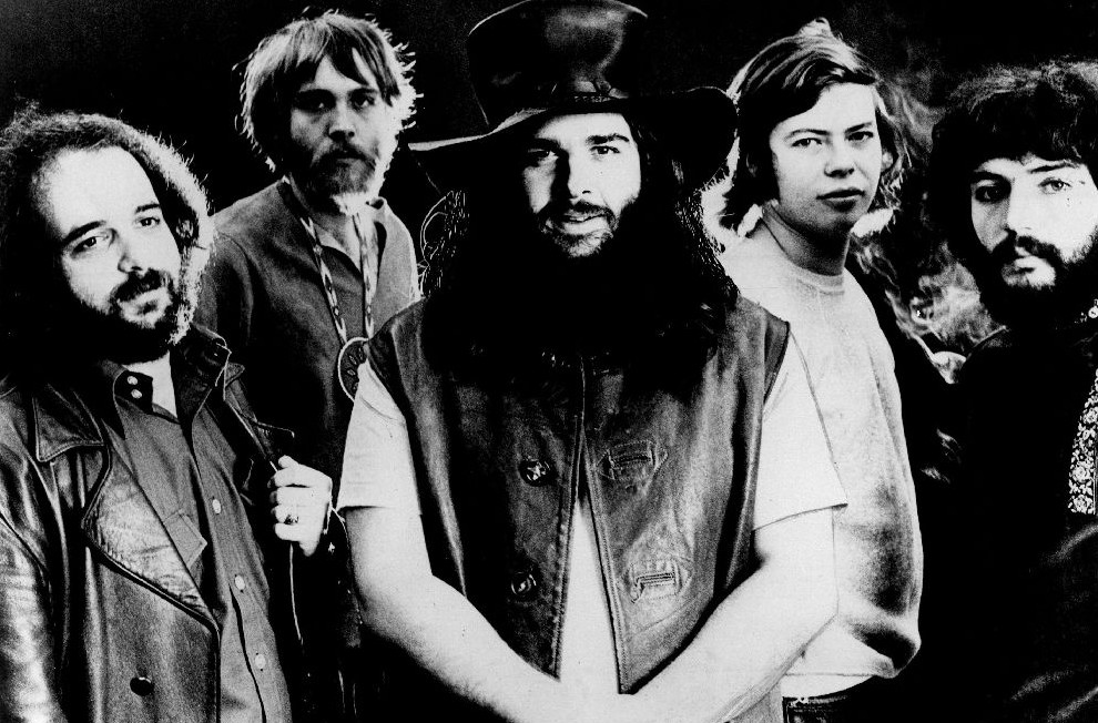 Photo of the music group Canned Heat. The engagement this photo was used to promote took place about 2 weeks before the death of Alan "Blind Owl" Wilson.